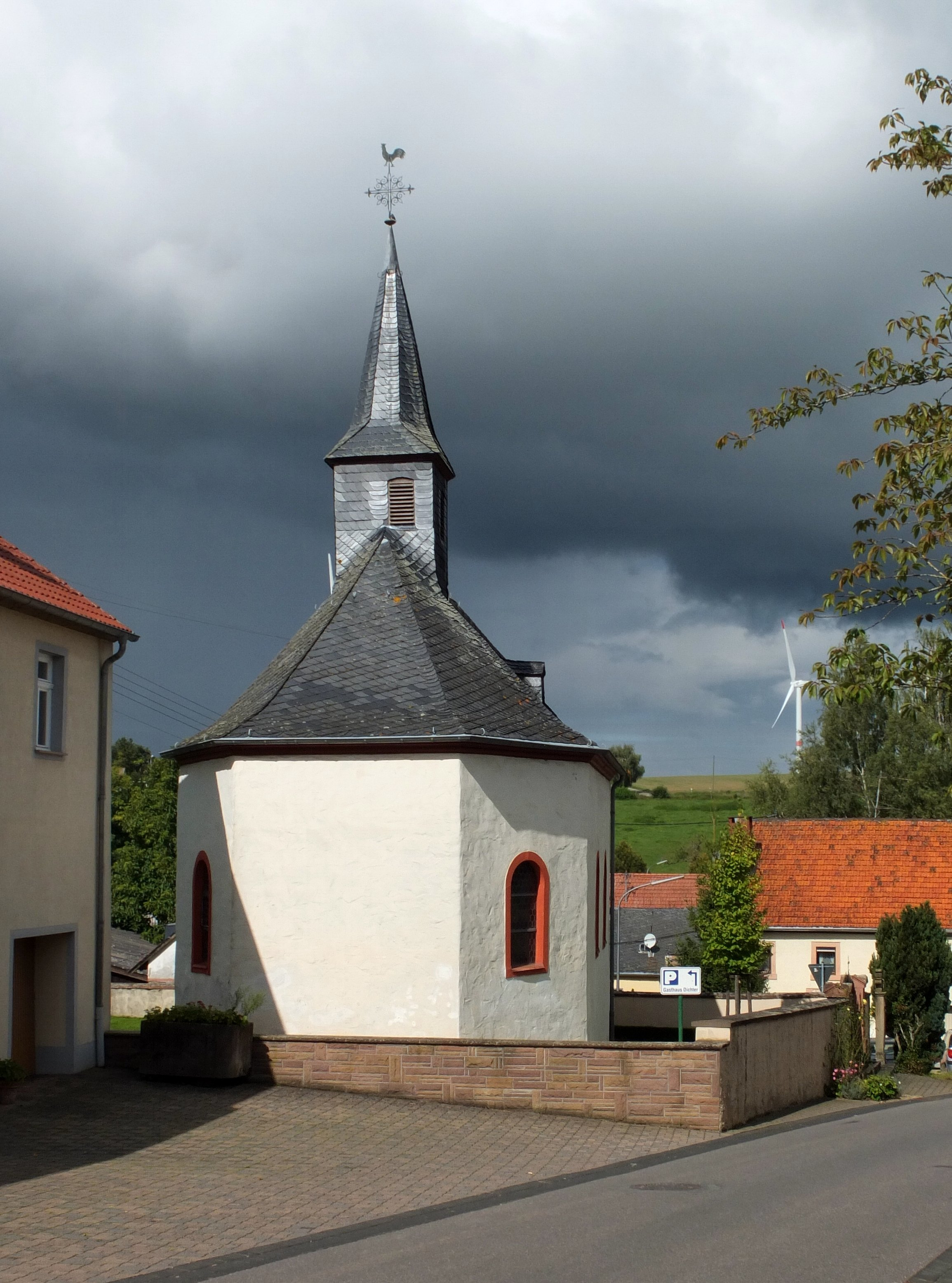 Church "St. Johannes der Täufer" and wayside cross (1831) in Gilzem, Germany (view southeast). This is a photograph of an architectural monument.It is on the list of cultural monuments of Gilzem